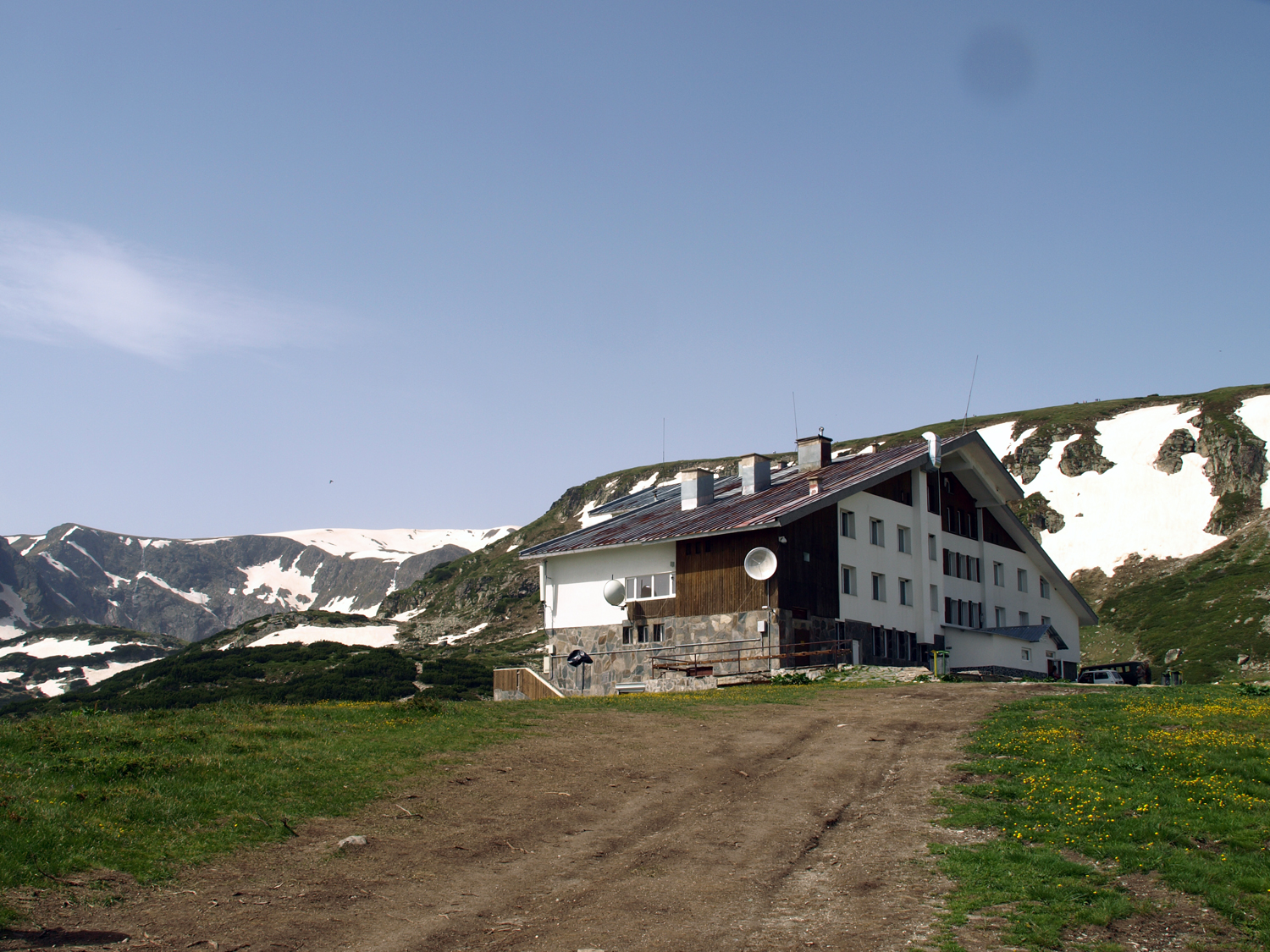 Chalet Rila Lakes view from the lift terminal Хижа Рилски езера